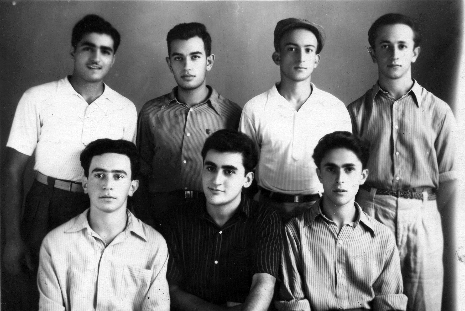 Edvard Chubaryan 75th Birthday, 05 May 2011 05, No. 23